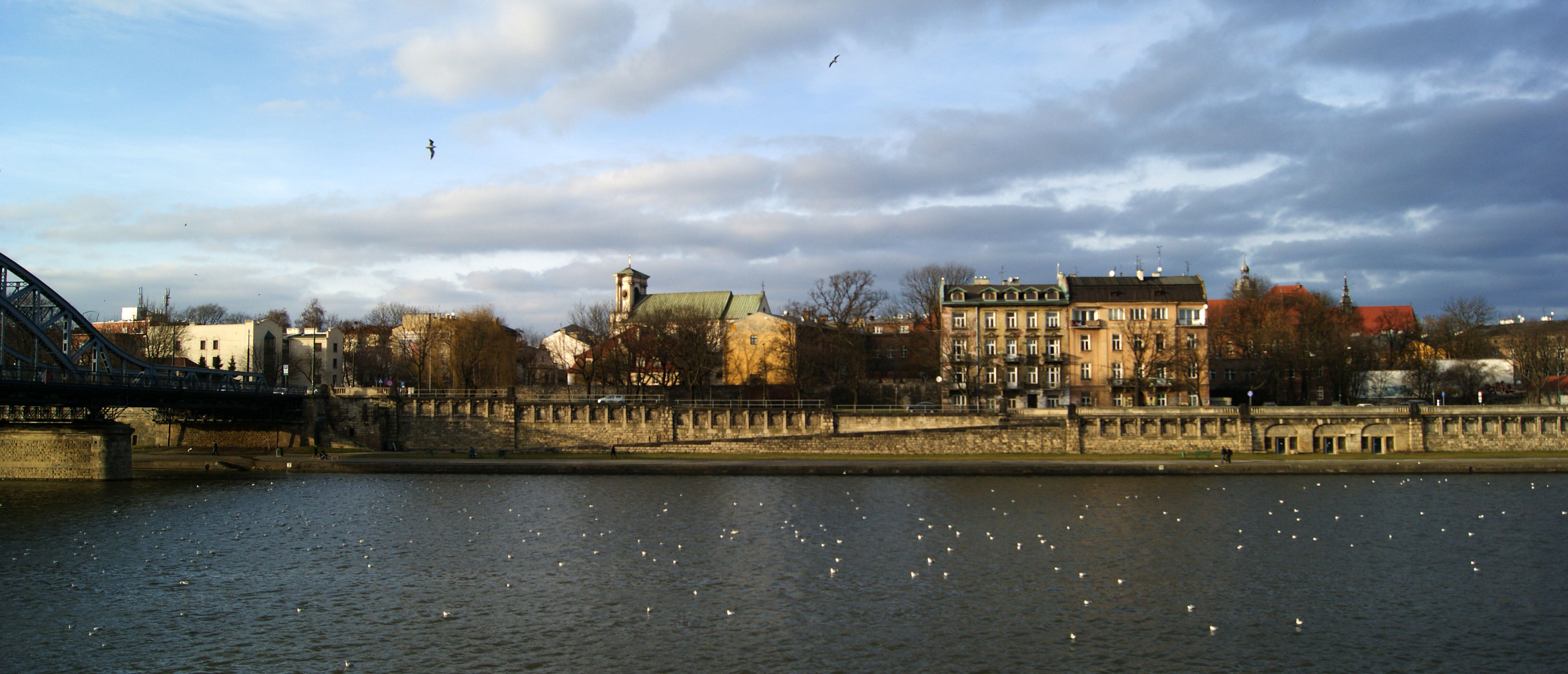 Kazimierz (view from S), Krakow, Poland